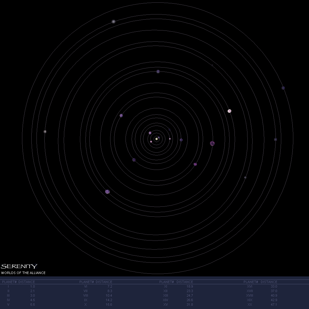 Recreation of the fictional solar system depicted in the opening "classroom" scene of the 2005 science fiction film "Serenity" by Joss Whedon.